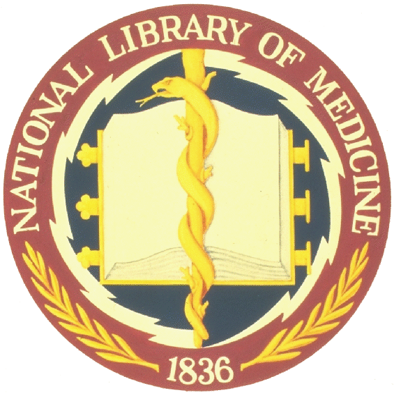 The official seal of the National Library of Medicine. According to this page, the seal was designed in 1986 by the Army Institute of Heraldry. It shows the familiar staff and serpent adapted from the staff of Aesculapius, the mythological god of medicine; an open book with three clasps which represent knowledge in three primary areas&emdash;medical research, education and practice; electronic flashes, which suggest NLM's leadership in applying new technology to communications; and laurel branches symbolizing the Library's preeminence as a medical resource available to institutions and individuals.